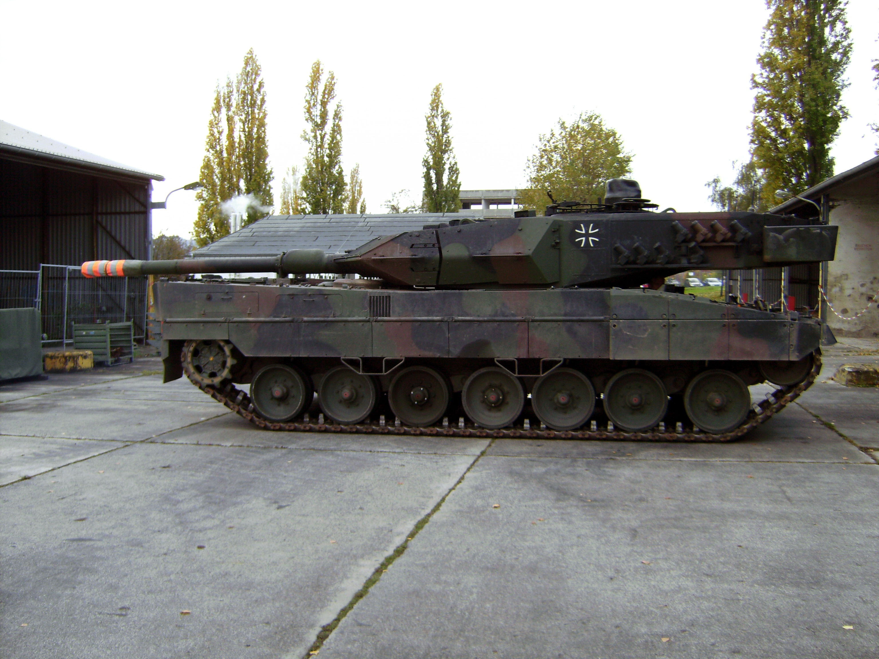 Leopard 2A6M